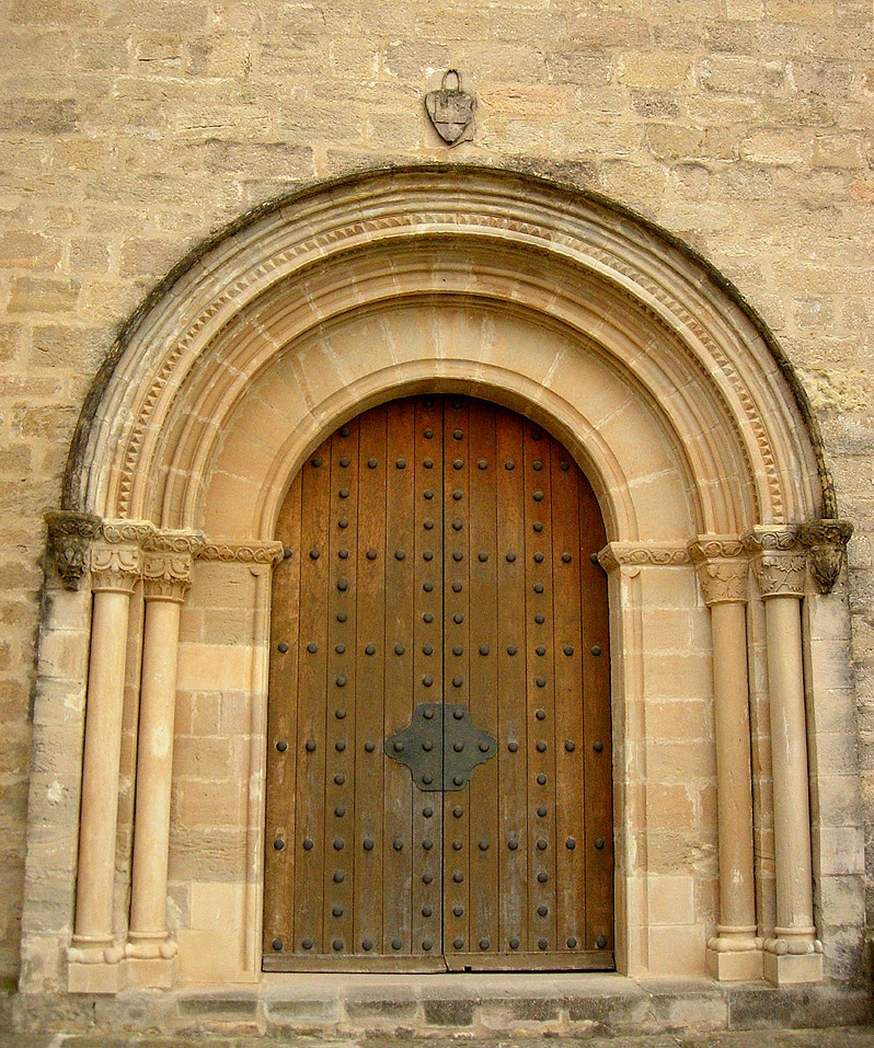 It is a image of the Església de Santa Maria de Rubió